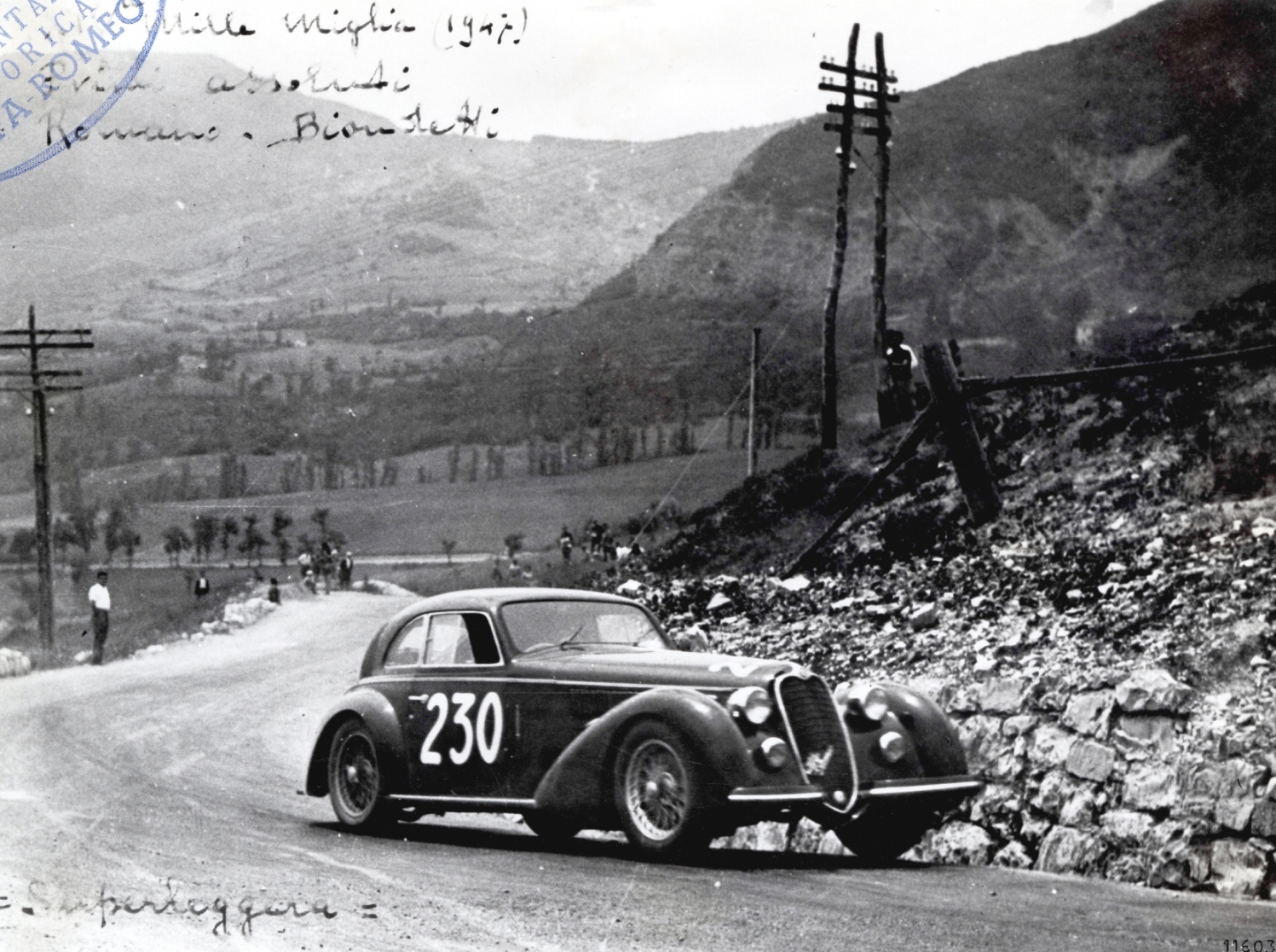 Entry #230 and WINNER in the Mille Miglia on 22 June 1947 was the 1938 Alfa Romeo 8C 2900B Touring Berlinetta s/n 412.036 driven by Clemente Biondetti and Emilio Romano (co-driver, probably the owner of this car).[1]